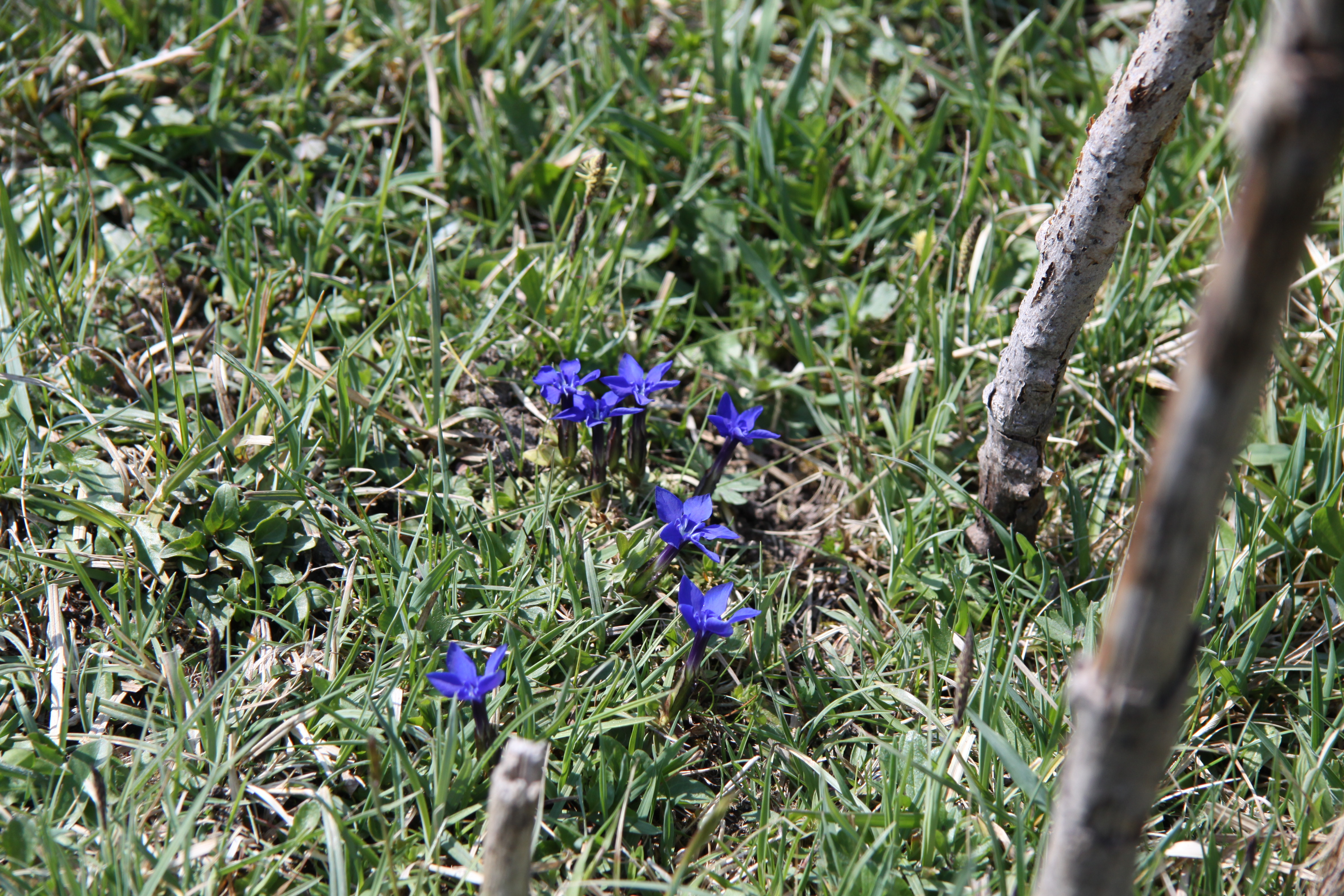 National natural monument Rovná, Strakonice District, Czech Republic